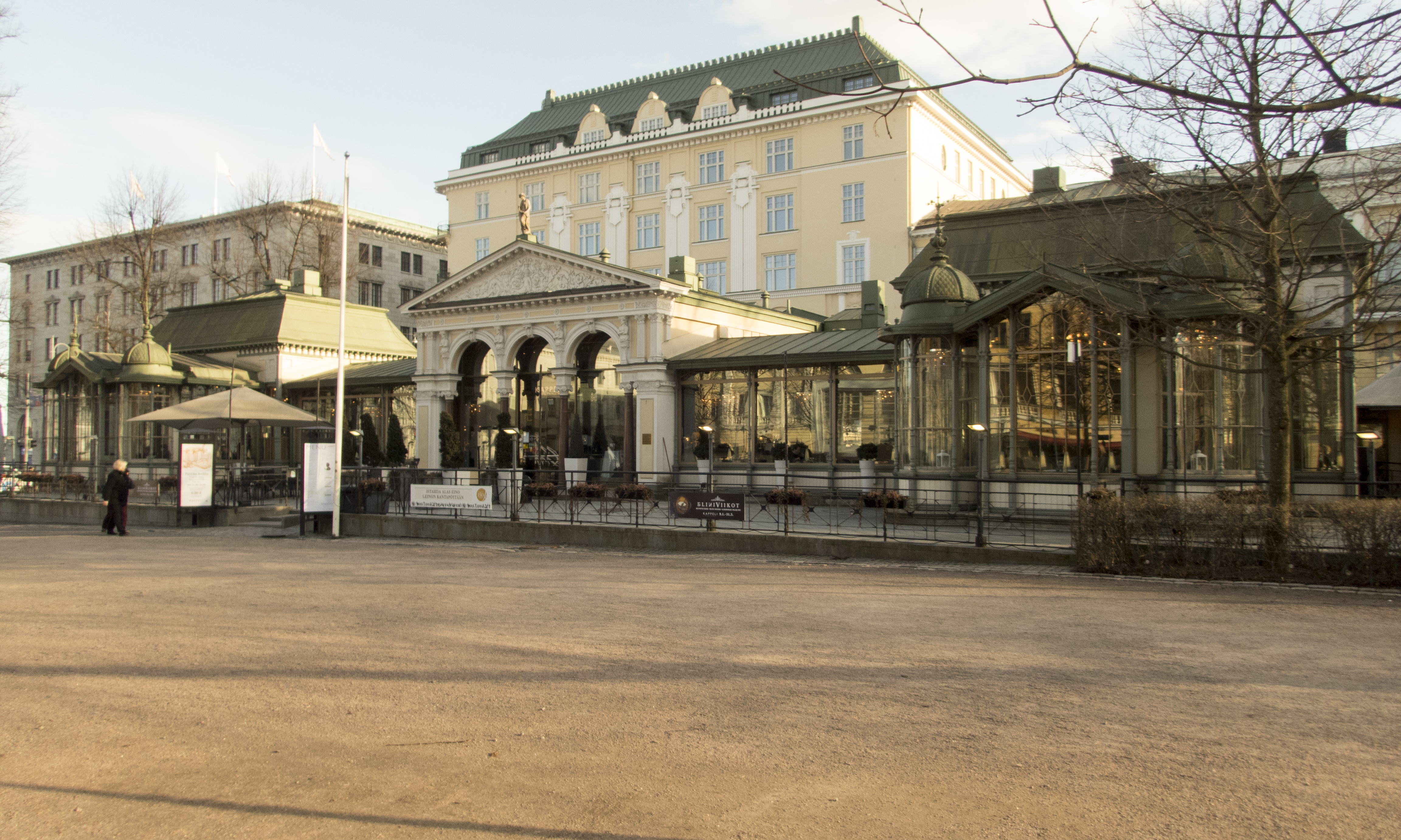 Esplanadikappeli. Architects Kiseleff & Heikel, Axel Hampus Dahlström. Built in 1867